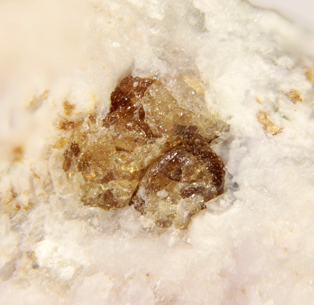 Locality: Kovdor Phlogopite Mine, Kovdor Massif, Northern Region, Russian Federation Size: 2.3 × 2.1 × 1.5 cm Description: Golyshevite crystals in matrix, some of them showing a pseudohexagonal section, with the typical yellowish-brown zircon-like colour. Under loupe you can observe faces. Golyshevite is an extremelly rare species, with Type Locality in this mine, nowadays closed and restored.